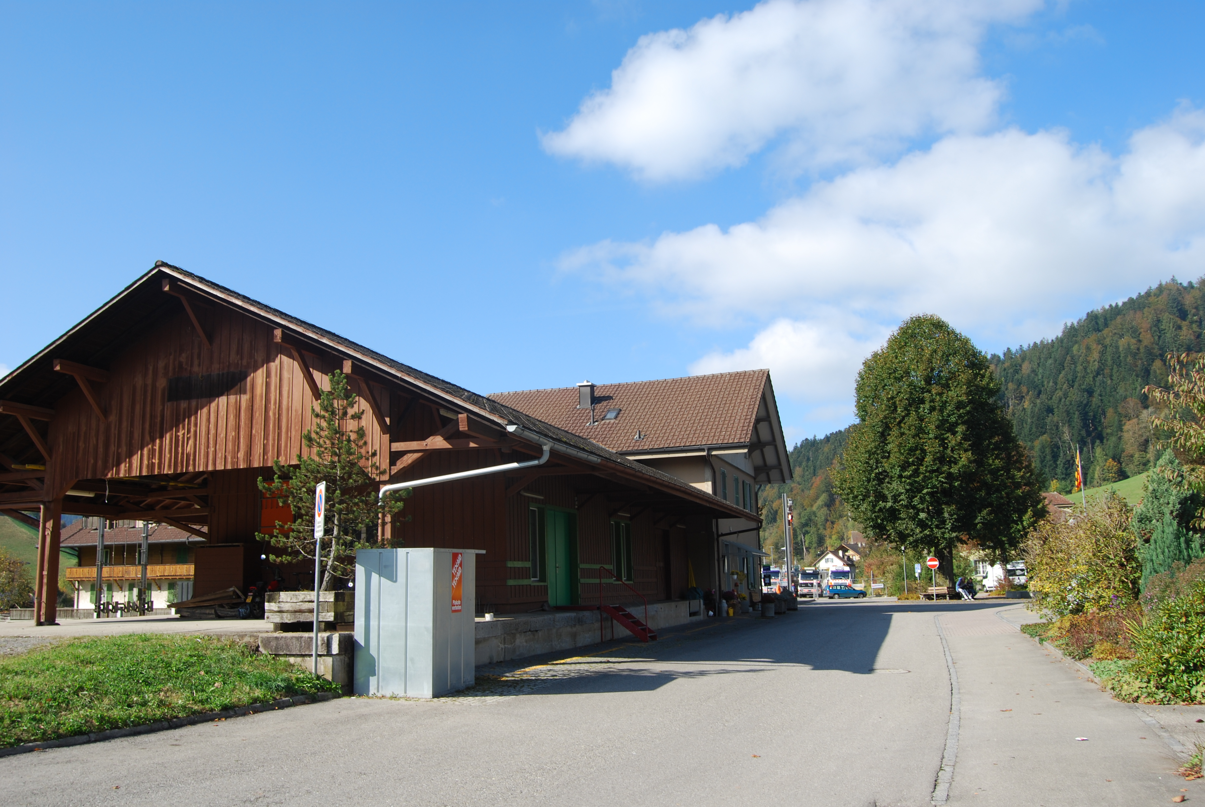 Train station of Trubschachen, canton of Bern, SwitzerlandEsperanto: Stacidomo de Trubschachen, Kantono Berno, Svislando